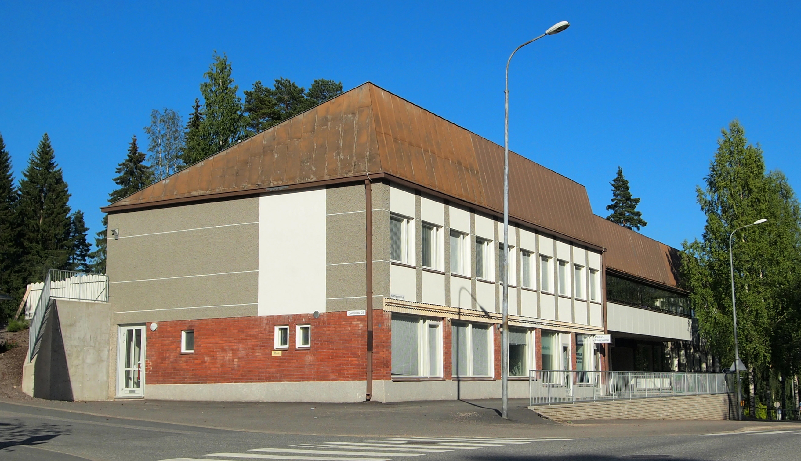 Building on the street Erämiehenkatu, Jyväskylä. This photograph was taken with an Olympus E-PL1